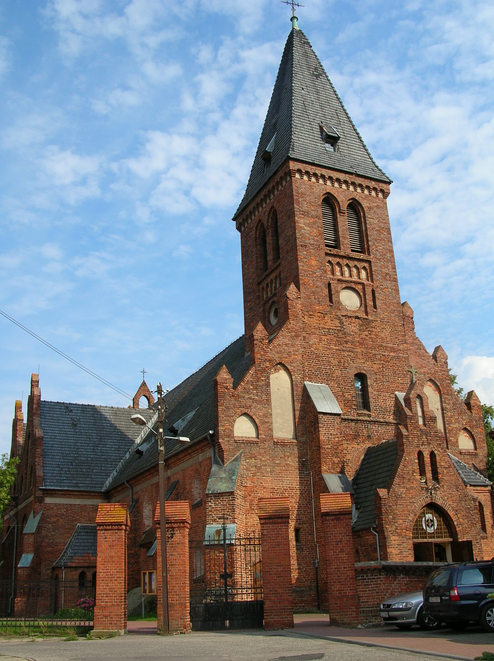 Saint Anne church in Sztum, Poland